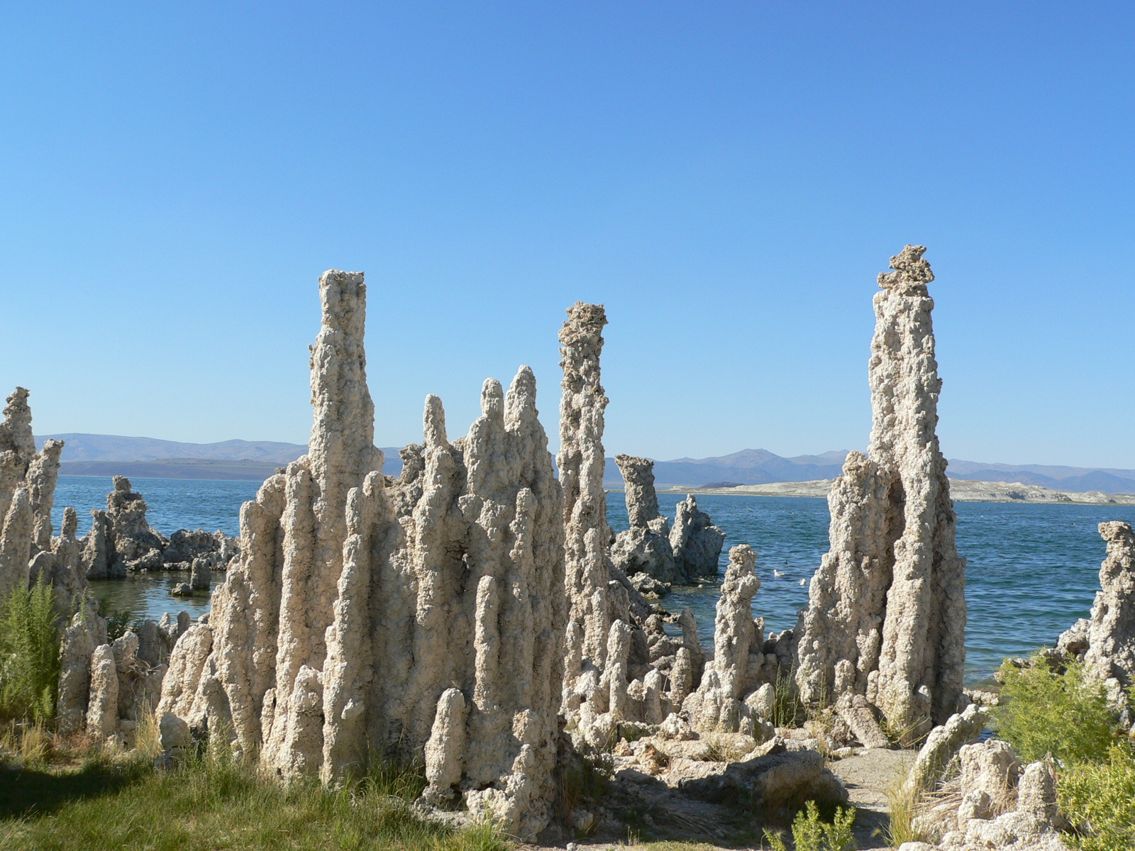 Tufa columns in Mono Lake, Mono Lake Tufa State Natural Reserve, Mono County, eastern California. The limestone towers are made mostly of calcite deposited in the salty and alkaline water of Mono Lake, in California. These rocks formed under water when calcium-rich spring water at the bottom of the lake bubbled up into the alkaline lake, forming these calcite "tufa" towers. If the lake level drops, the tufa towers appear in interesting formations.